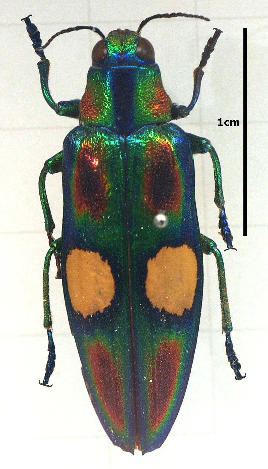 Chrysochroa ocellata. Mounted specimen.